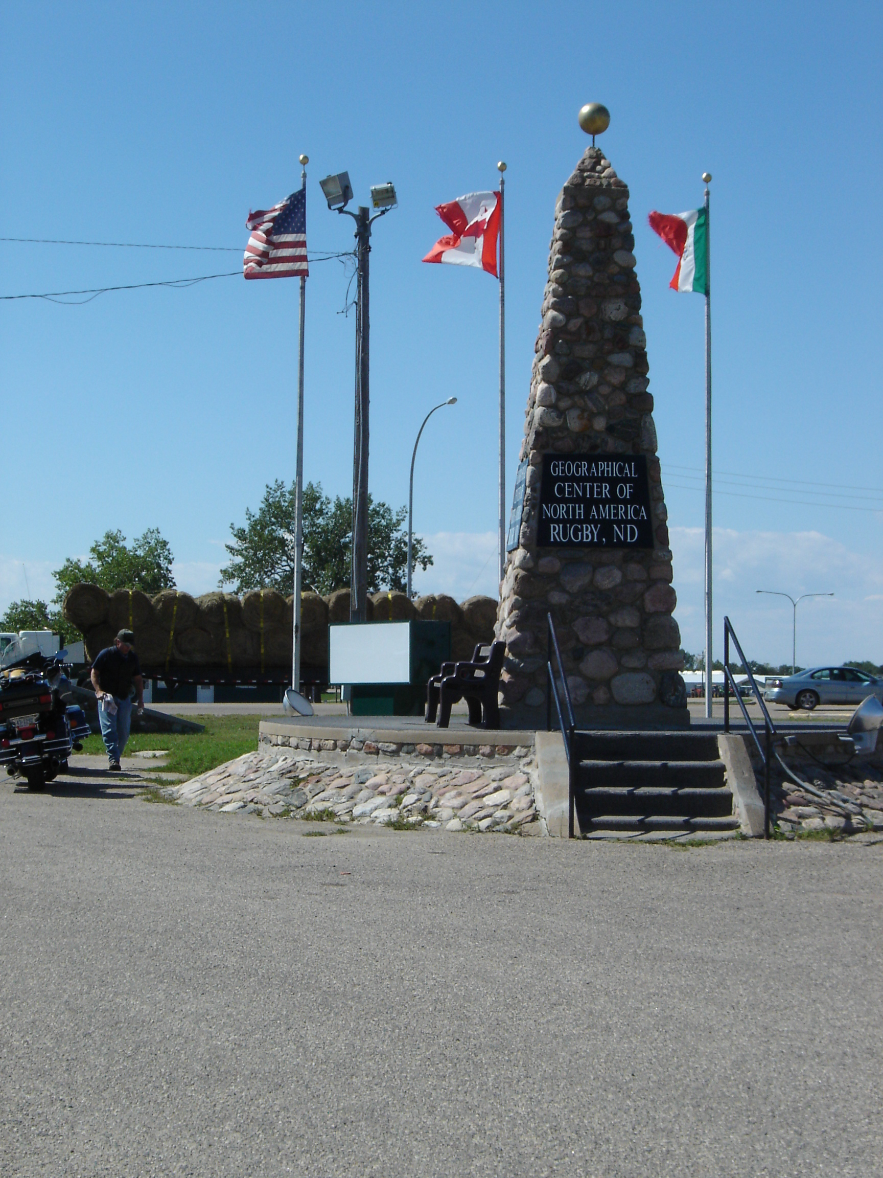 Geographical Center of North America monument in Rugby, ND.